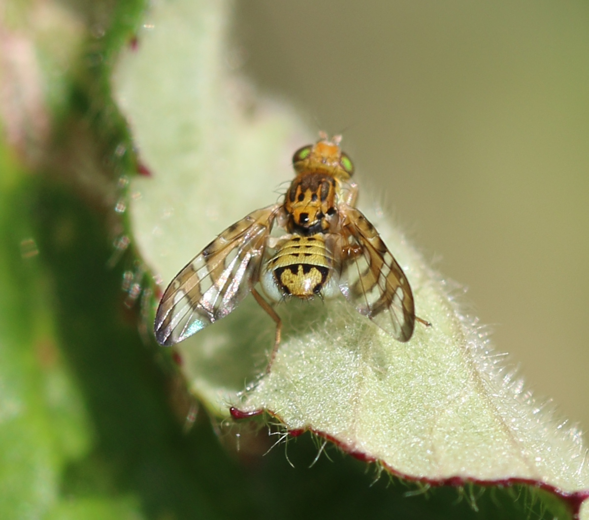 Saltoun wood, East Lothian, Scotland NT464661 Thanks to Keith Edkins for iding this little beauty.